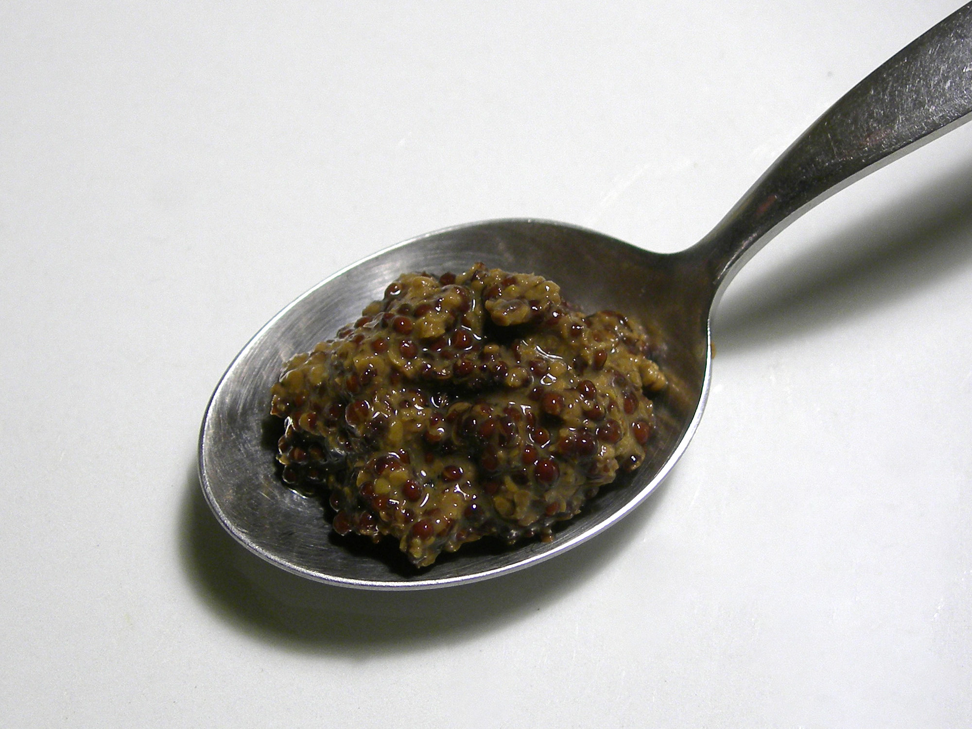 French coarse-grained mustard